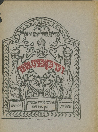 Book cover. "Der bobes oytser" (The treasure of Grand-Mother). Book in yiddish of Myriam Linover 1922